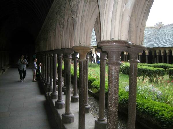 cloister of Mont-Saint-Michel (Normandie, France)